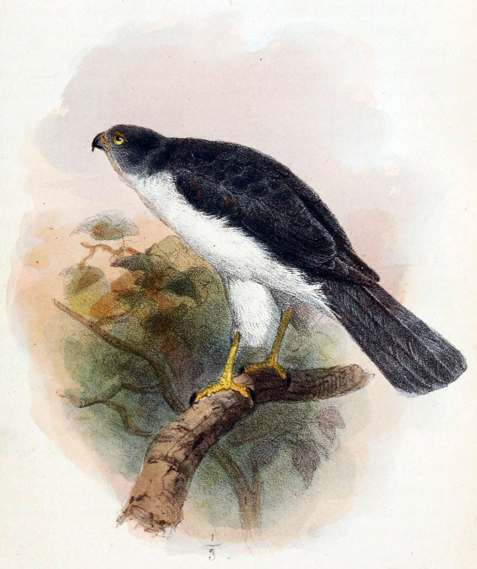 « Accipiter francesi » = Accipiter francesiae pusillus (Subspecies of Frances's Sparrowhawk) from Joanna Island